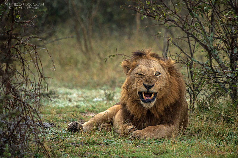 500px provided description: A male lion showing his happiness on a cold and misty winter morning [#africa ,#lion ,#safari ,#kyle de nobrega ,# ]